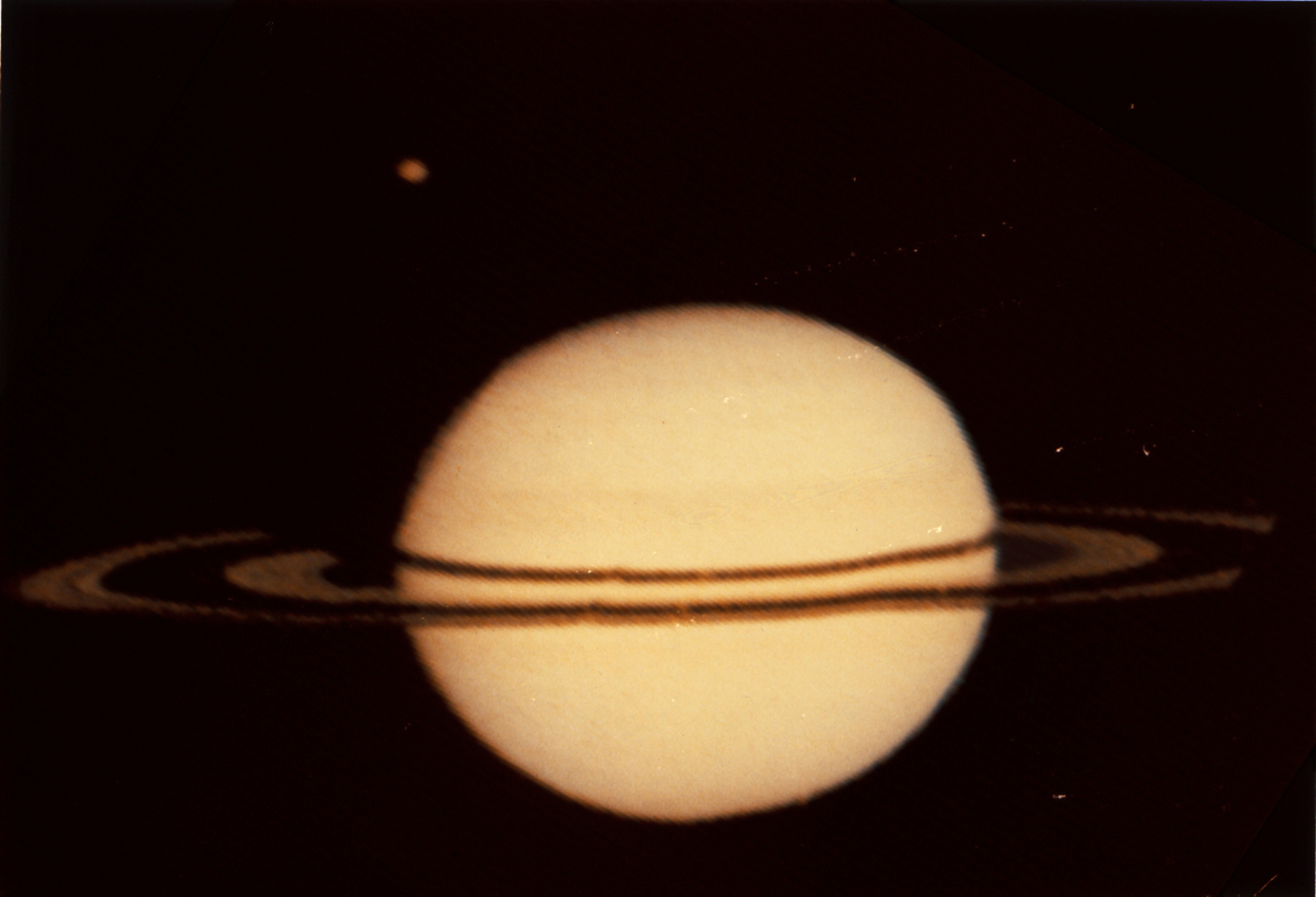 NASA's Pioneer 11 image of Saturn and its moon Titan at the upper left. The irregularities in ring silhouette and shadow are due to technical anomalies in the preliminary data later corrected. Looking at the rings from left to right, the ring area begins with the outer A ring; the Encke Division; the inner A Ring; Cassini Division; the B Ring; the C Ring; and the innermost area where the D Ring would be. The image was made by Pioneer Saturn on Wednesday, August 26, 1979, and received on Earth at 3:19 pm PDT. Pioneer was, at that time, 2,846,000 kilometers (1,768,422 miles) from Saturn. The image was produced by computer at the University of Arizona and managed by NASA's Ames Research Center.